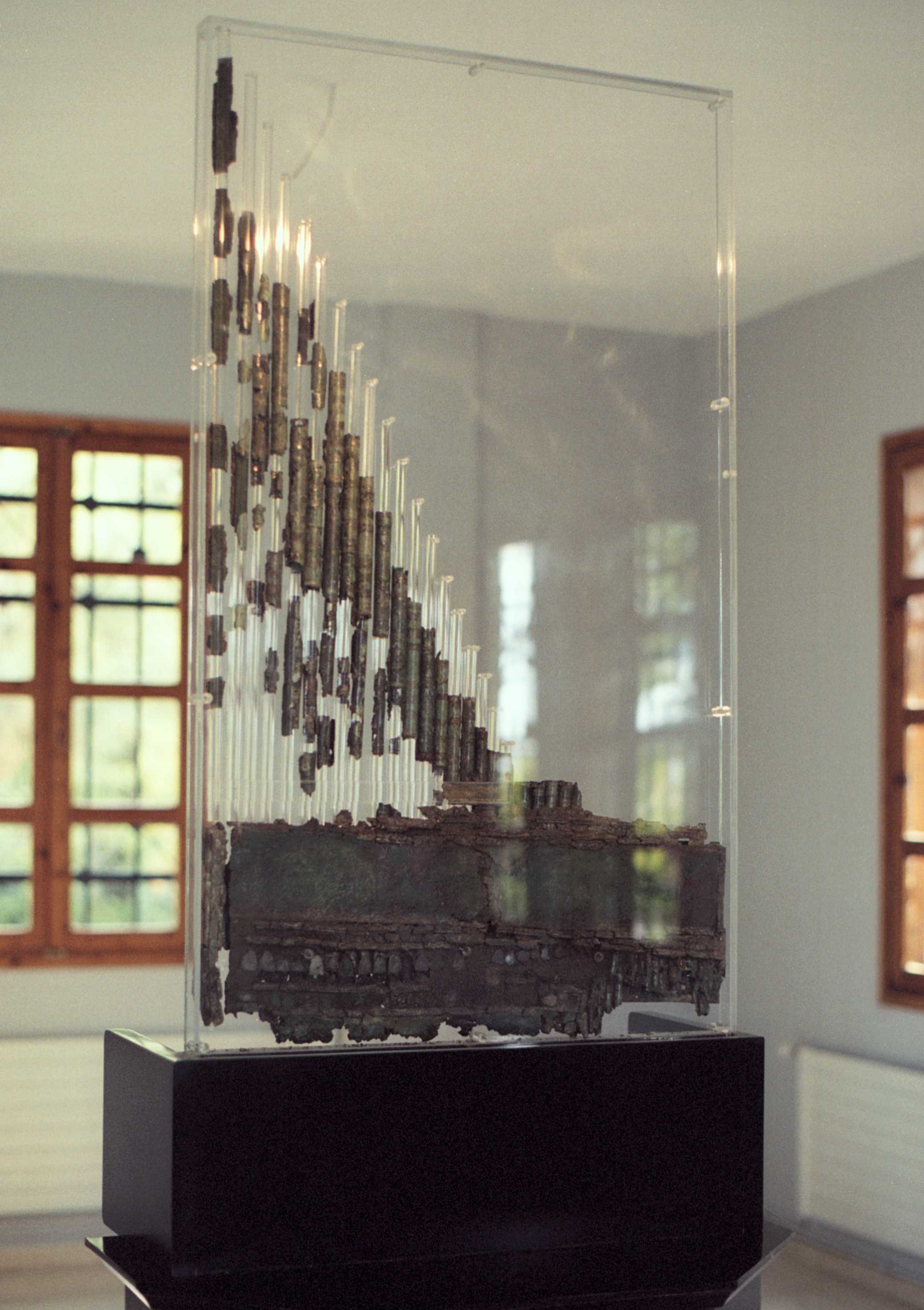 The water organ, called "hydraulos" (water flute). Apparently it is the oldest preserved organ, perhaps the 2nd century BC. Probably playing in the theater. Archaeological Museum of Dion.